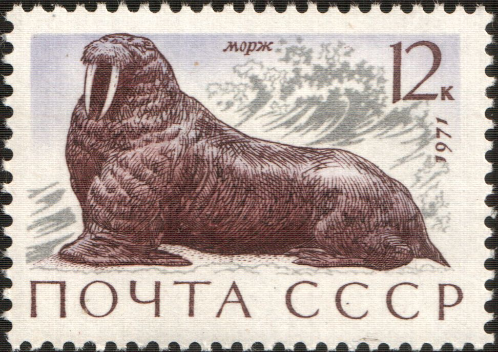 USSR stampː Walrus. Seriesː Mammals - Inhabitants of the Seas and Oceans Washing the Territory of Russia